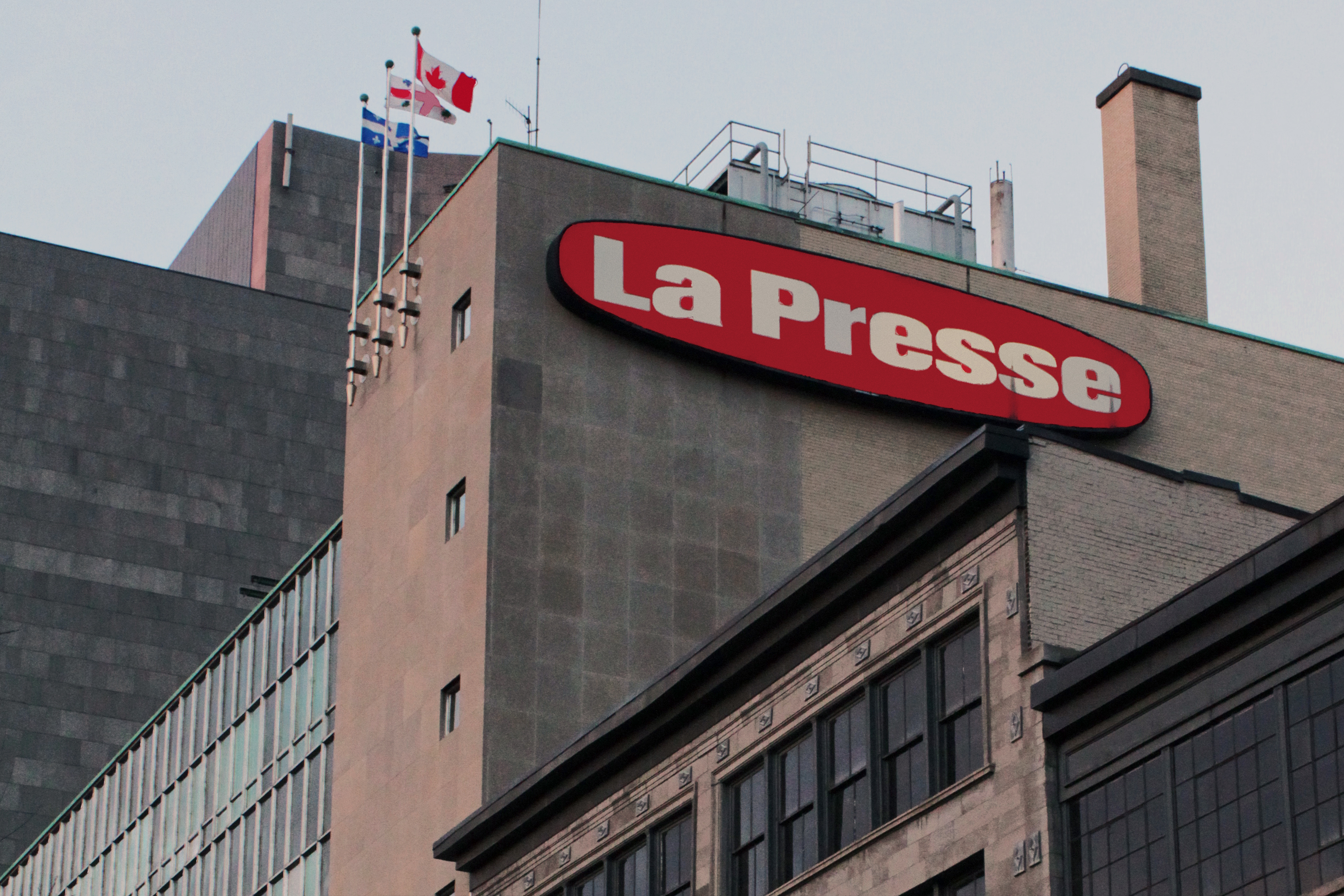 Bureau de La Presse sur la rue Saint-Jacques, Montréal